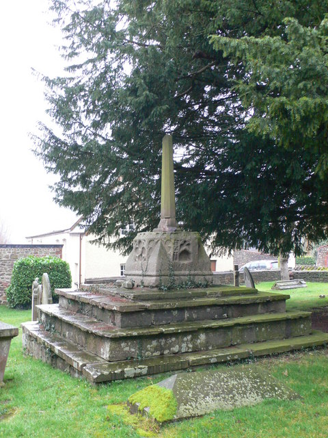 Preaching Cross, St Cadog's Church, Raglan It stands in the churchyard to the south of the church.